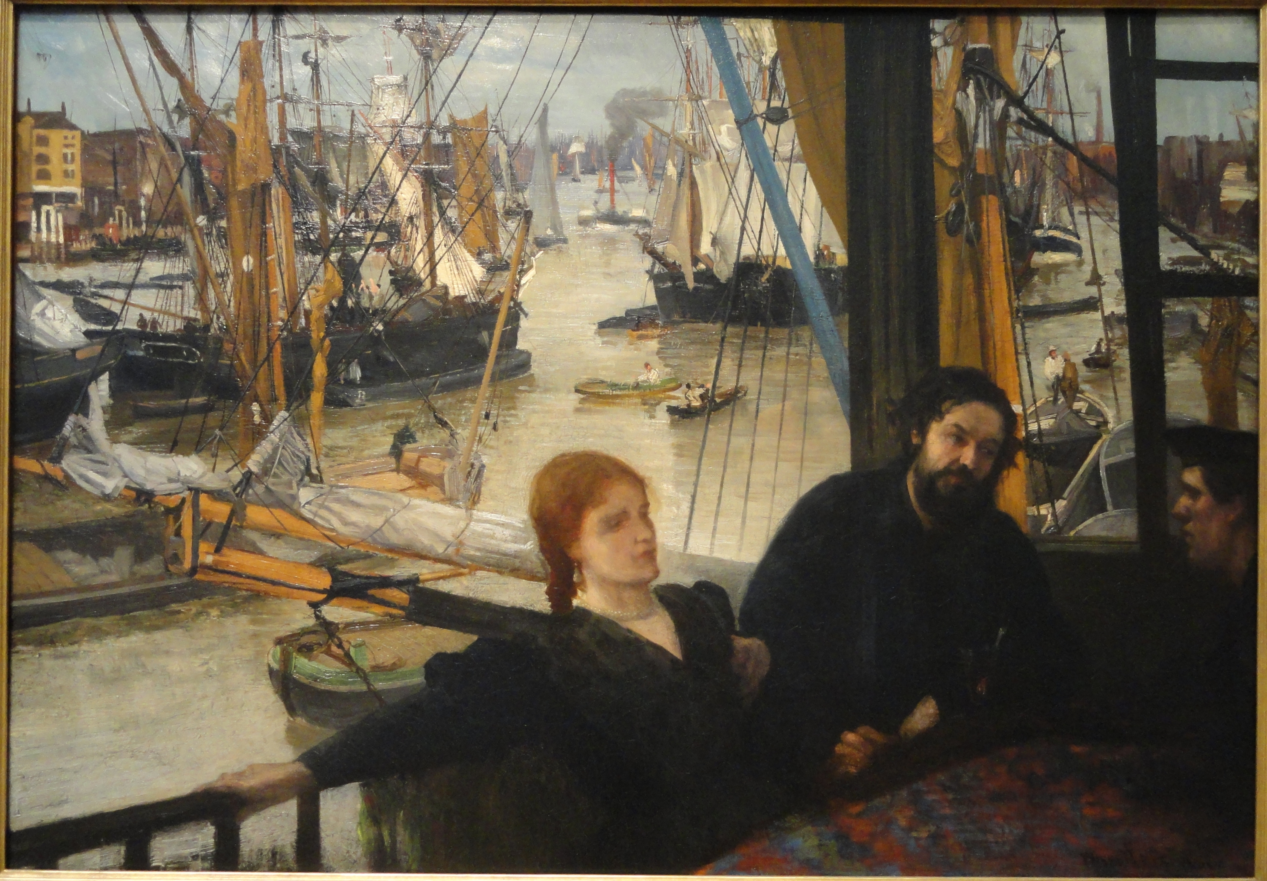 Wapping on Thames by James McNeill Whistler, 1860-1864, oil on canvas - National Gallery of Art, Washington, DC, USA. This painting is in the public domain because the artist died more than 70 years ago.